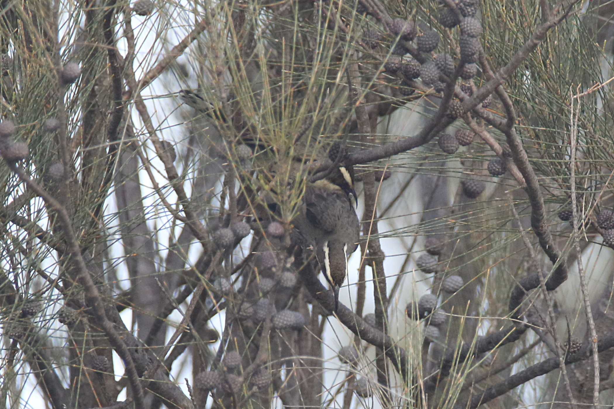 Pomatostomus superciliosus (Vigors & Horsfield, 1827), White-browed Babbler, Aldersyde, WA, 15 May 2016